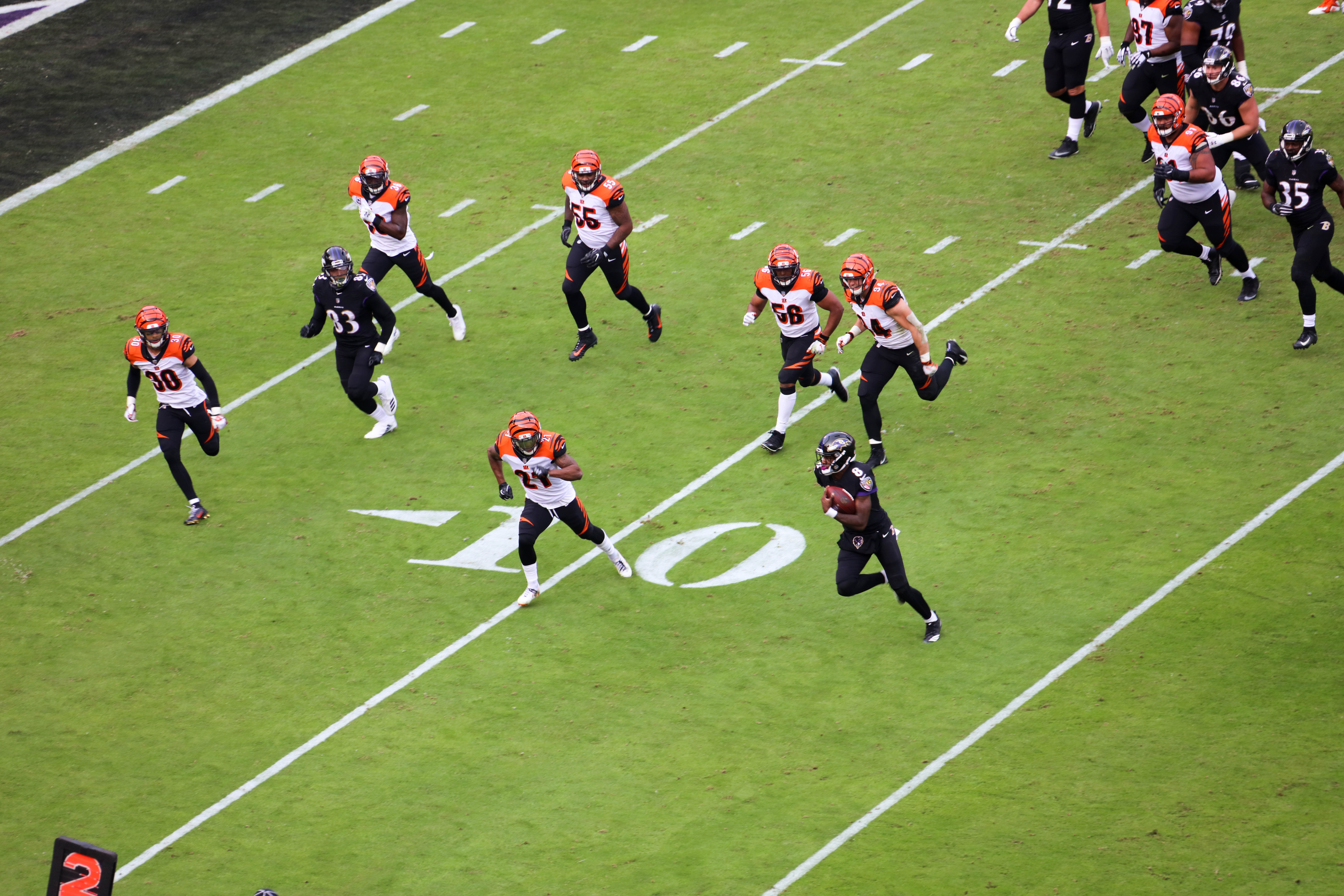 Lamar Jackson of the Baltimore Ravens runs the ball against the Cincinnati Bengals during a 2018 game at M&T Bank Stadium in Baltimore.